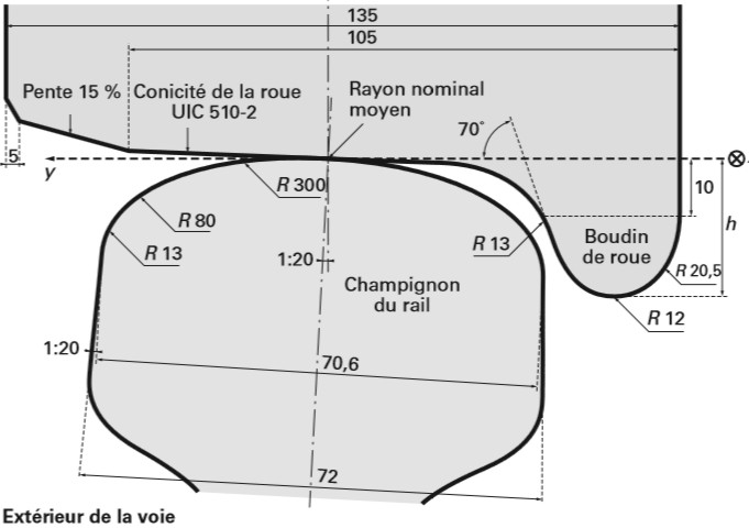 wheel/rail contact